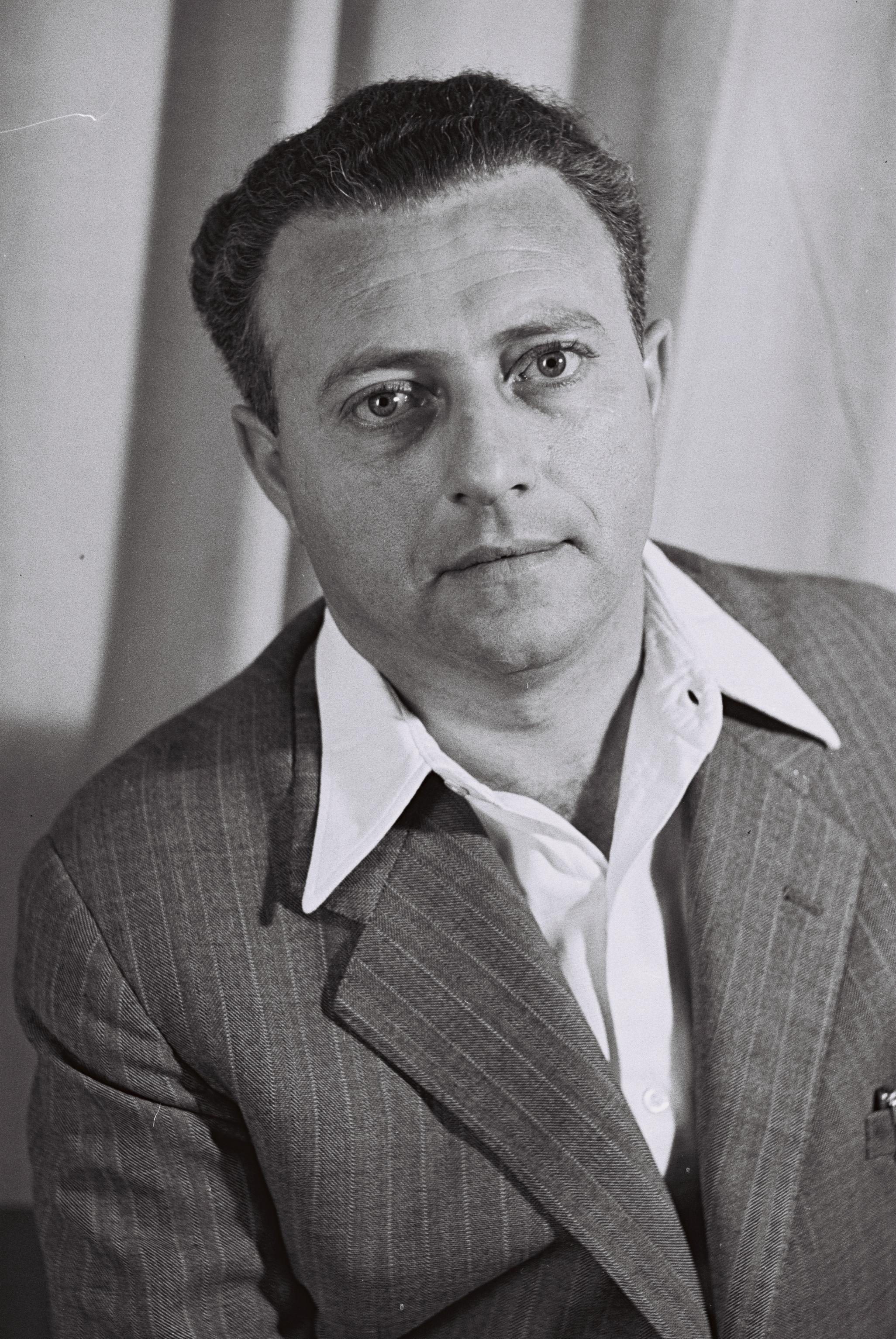 MICHAEL CHAZANI, HAPOEL HAMIZRACHI PARTY.